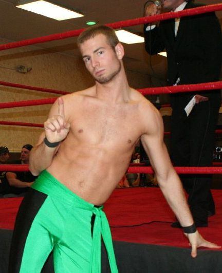 Professional wrestler Stupefied (real name Marc Dionne; also known as Player Dos) at a Chikara show on May 24, 2008.